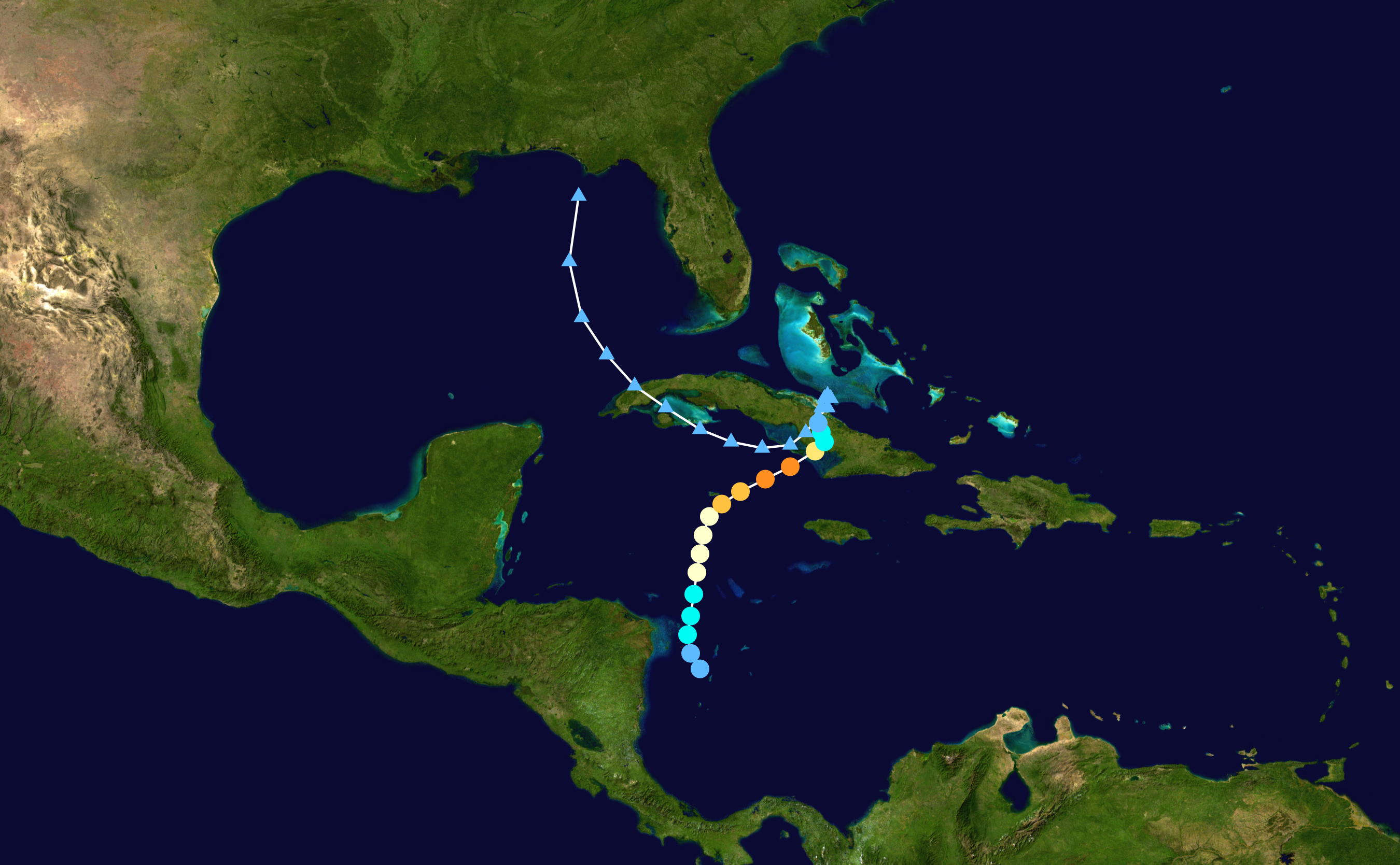 Track map of Hurricane Paloma of the 2008 Atlantic hurricane season. The points show the location of the storm at 6-hour intervals. The colour represents the storm's maximum sustained wind speeds as classified in the Saffir–Simpson scale (see below), and the shape of the data points represent the nature of the storm, according to the legend below. Saffir–Simpson scale Tropical depression≤38 mph≤62 km/h Category 3111–129 mph178–208 km/h Tropical storm39–73 mph63–118 km/h Category 4130–156 mph209–251 km/h Category 174–95 mph119–153 km/h Category 5≥157 mph≥252 km/h Category 296–110 mph154–177 km/h Unknown Storm type Tropical cyclone Subtropical cyclone Extratropical cyclone / Remnant low / Tropical disturbance / Monsoon depression